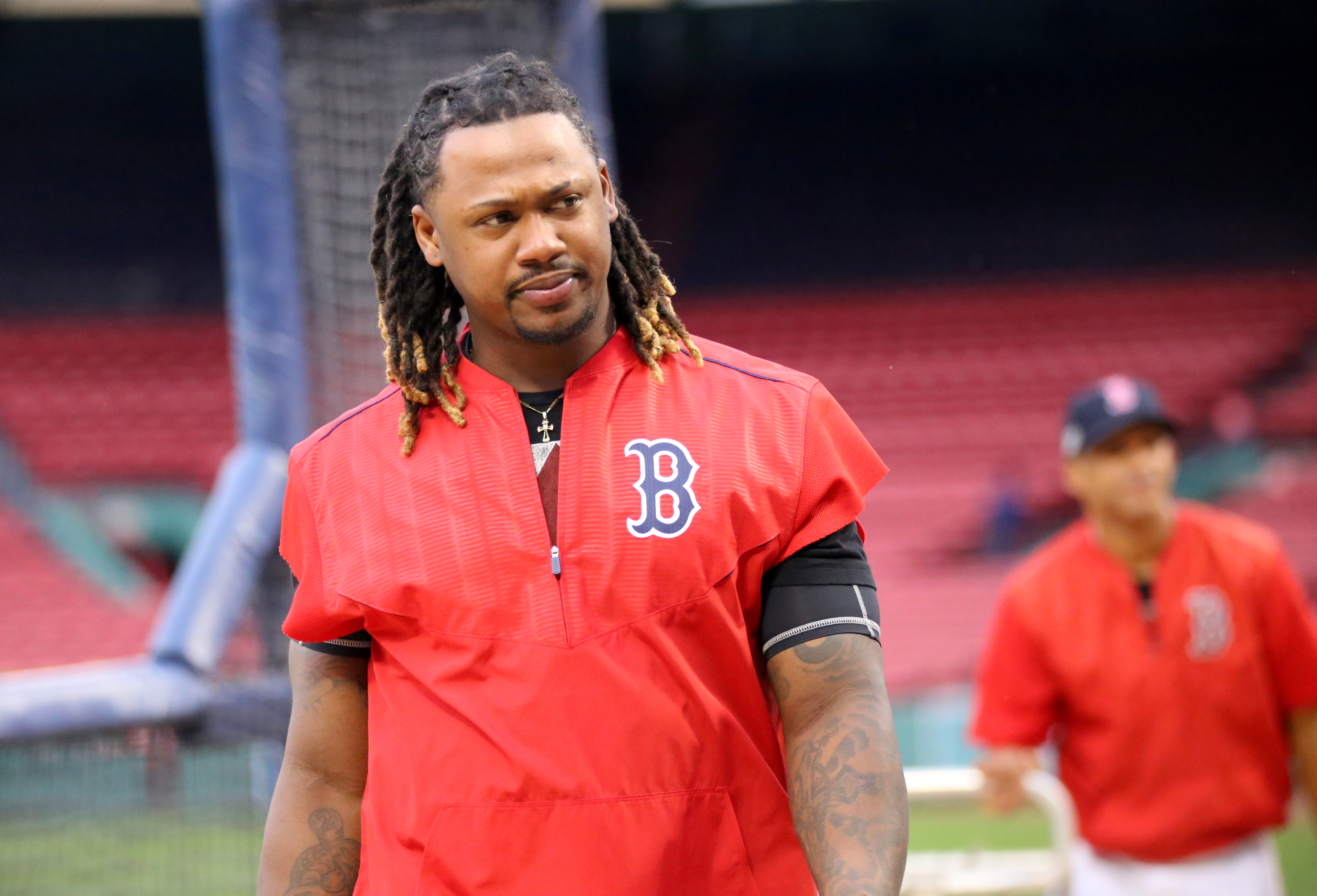 Red Sox first baseman Hanley Ramirez looks on during Saturday's workout at Fenway Park.